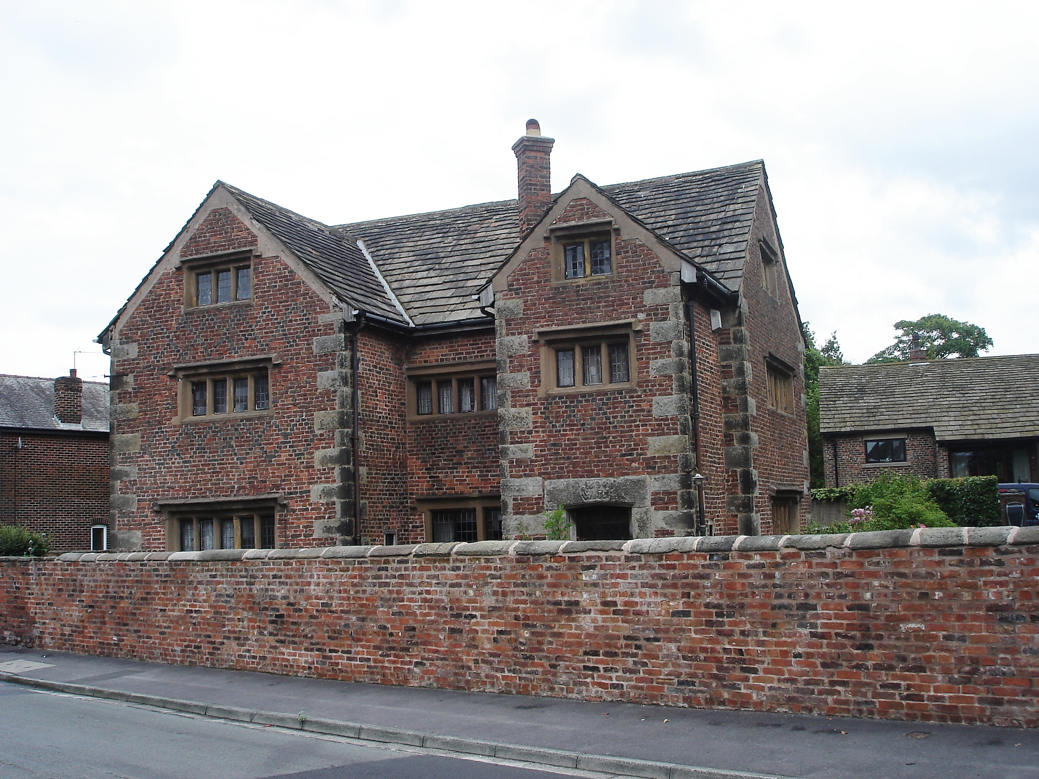 Todd Hall, Walton le Dale. A grade II* listed building.